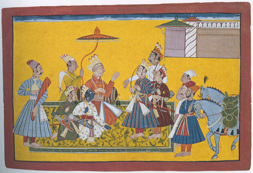 King Dasaratha Bids Farewell to His Sons Bharata and Shatrughna